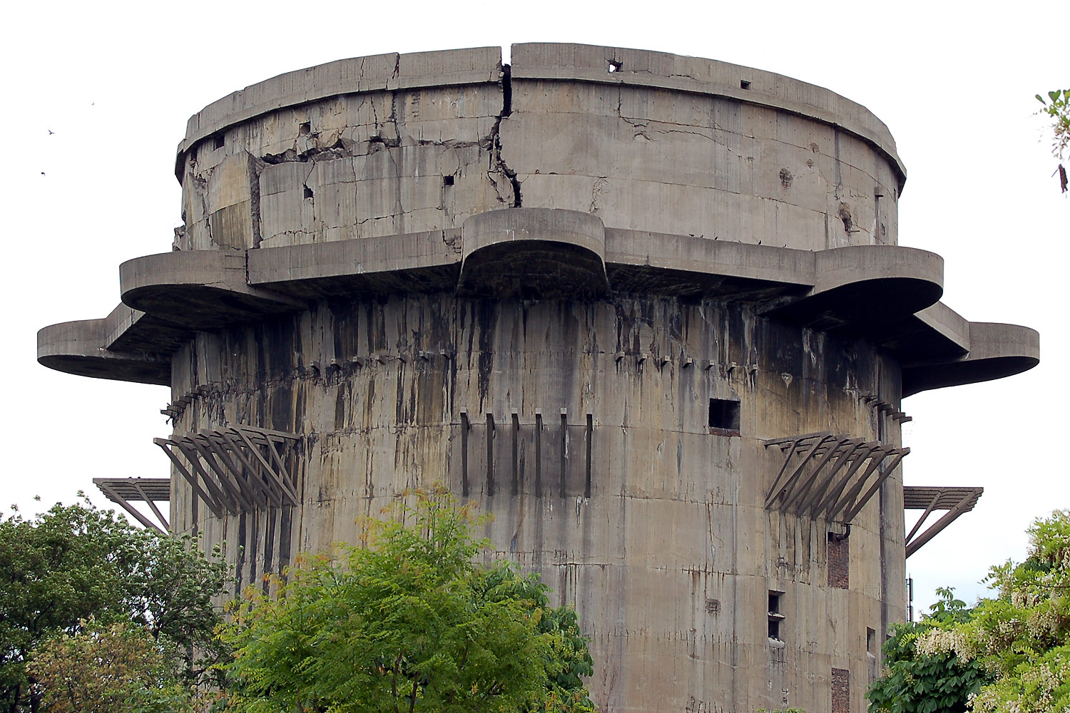 Damage to the Flaktower situated in the Augarten, Vienna, Austria.